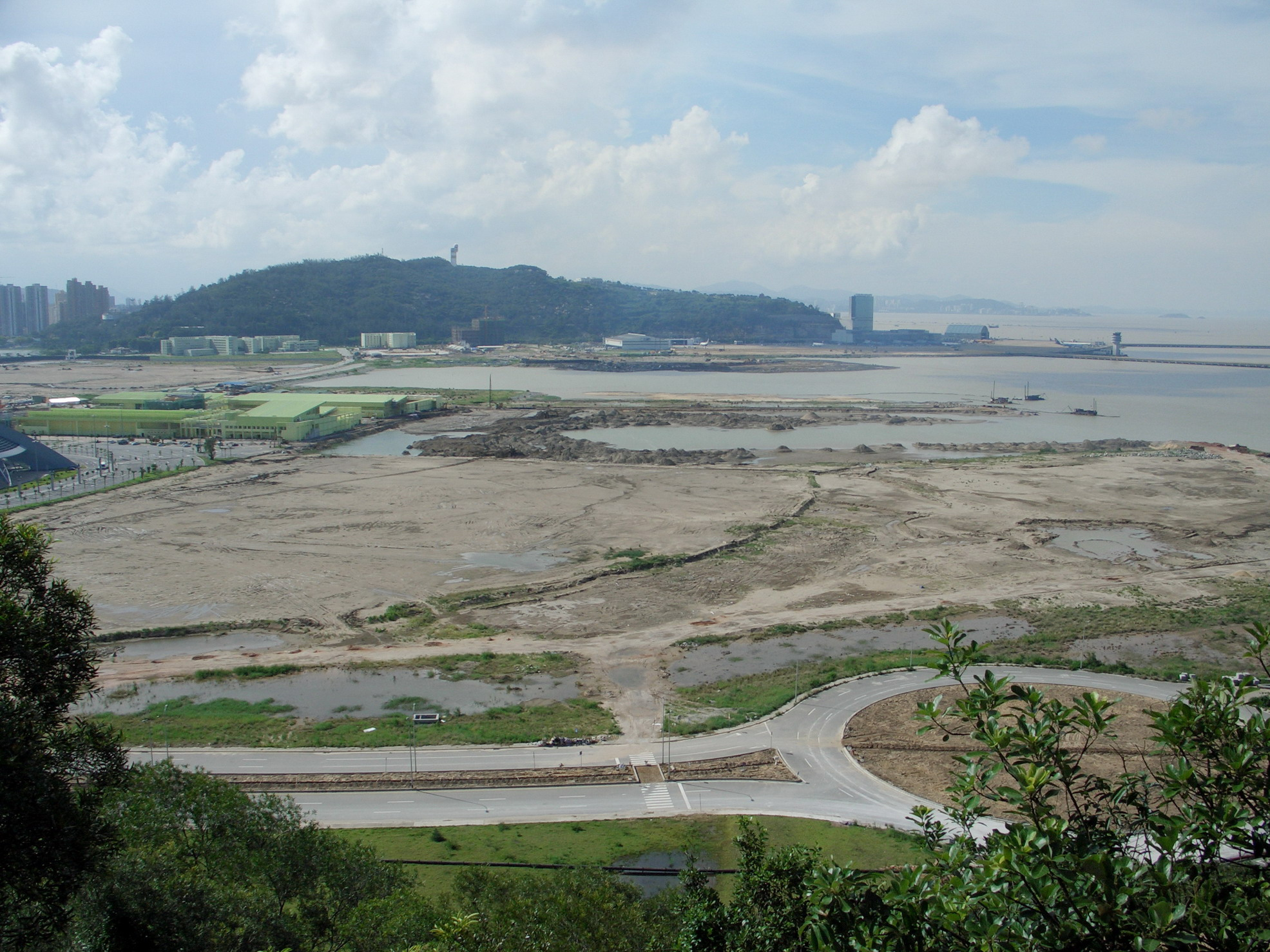 Cotai City